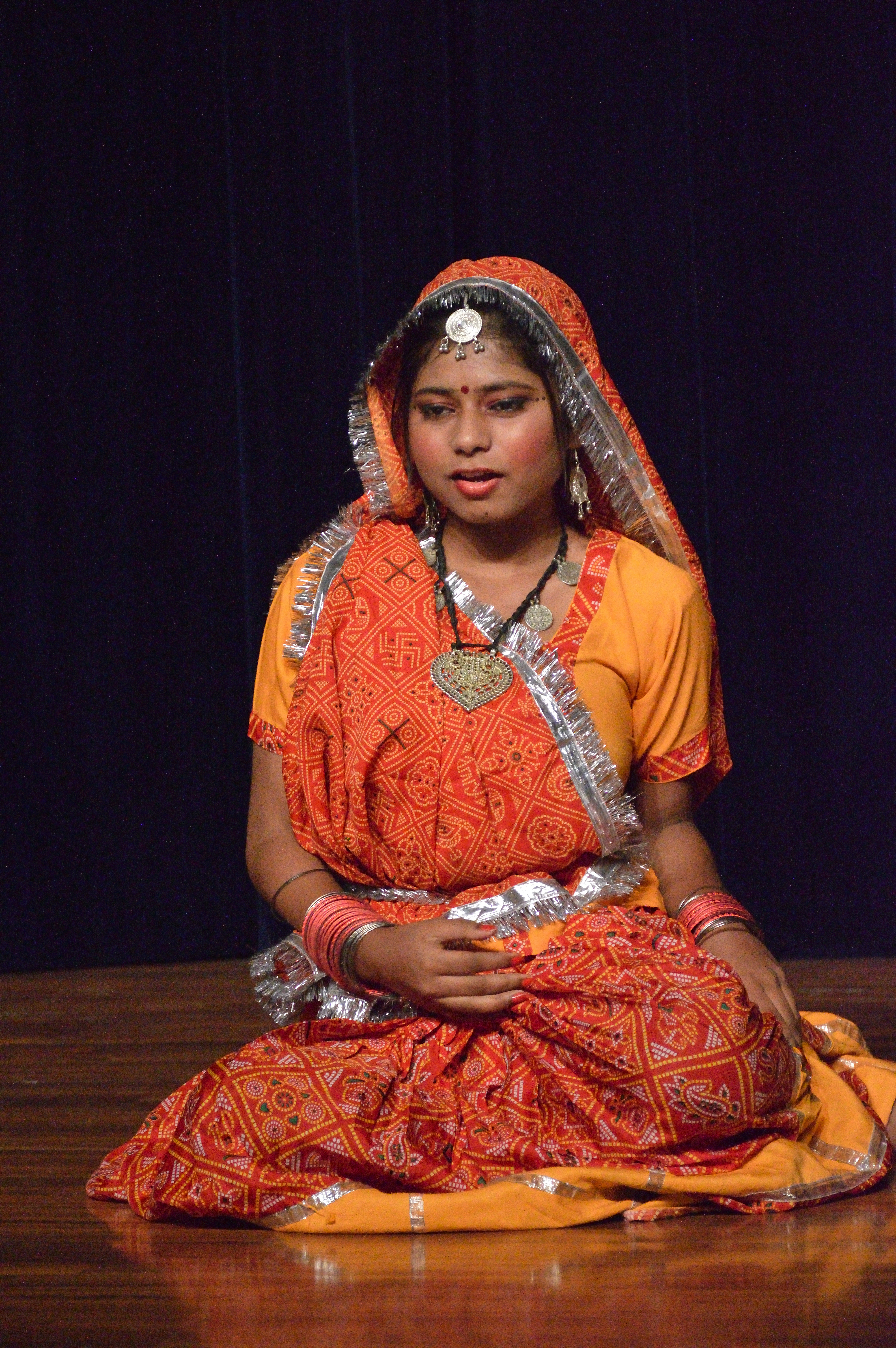 This photograph was taken during the 'WikiConference India 2016' or WCI2016. It was held at the 'Chandigarh Group of Colleges' (CGC), Landran, Mohali on 5, 6, and 7 August 2016. About 200 Wikipedians from India, Bangladesh, Srilanka and the USA were participated at the three day event.